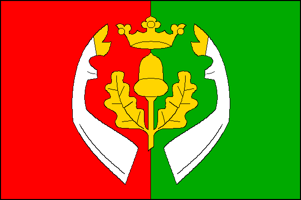 Municipal flag of Dubenec , District Příbram, Czech Republic